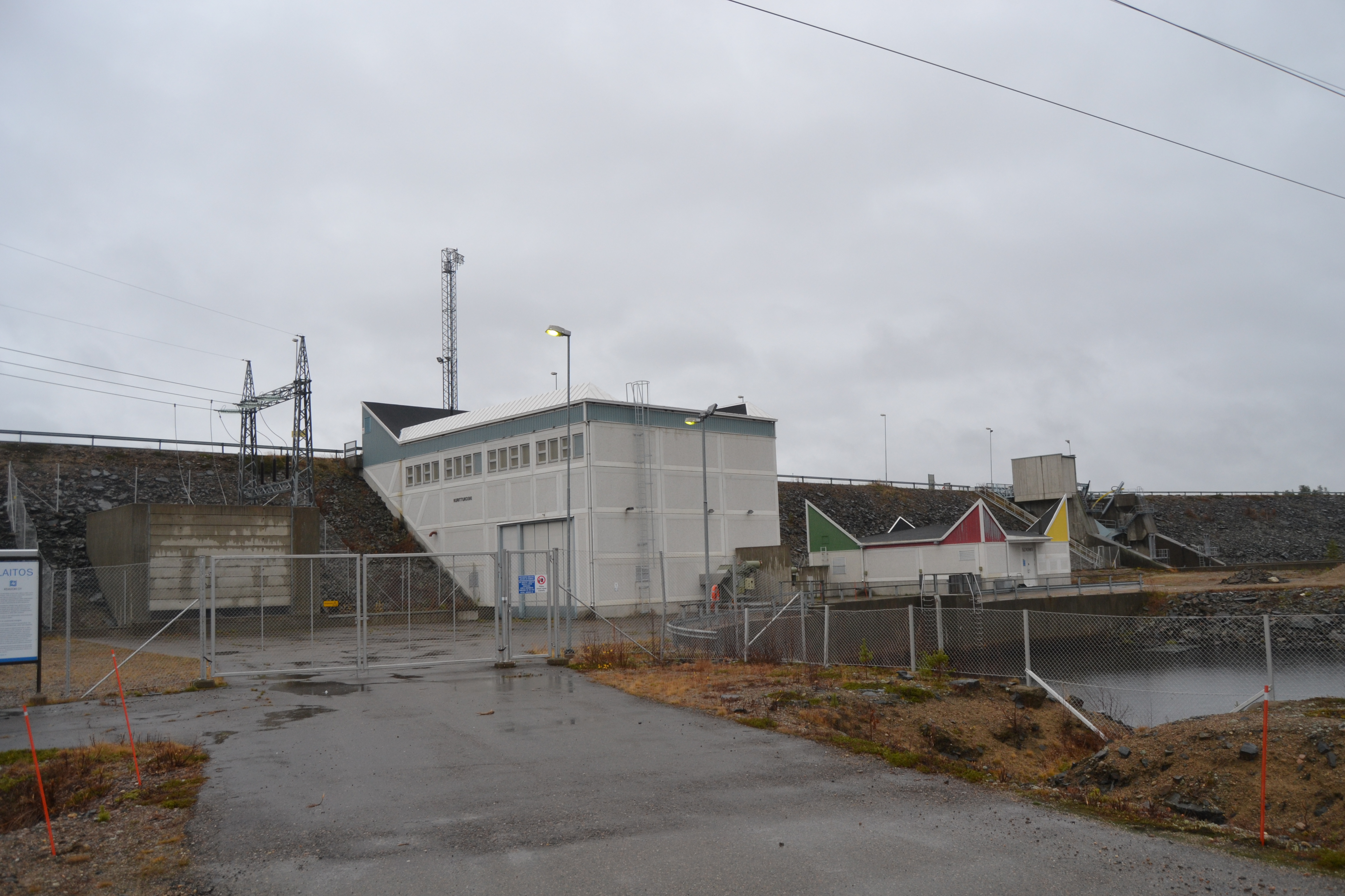 Kurittukoski hydroelectric power plant on Kitinen in Sodankylä, Finland